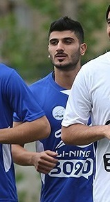 Milad Zakipour